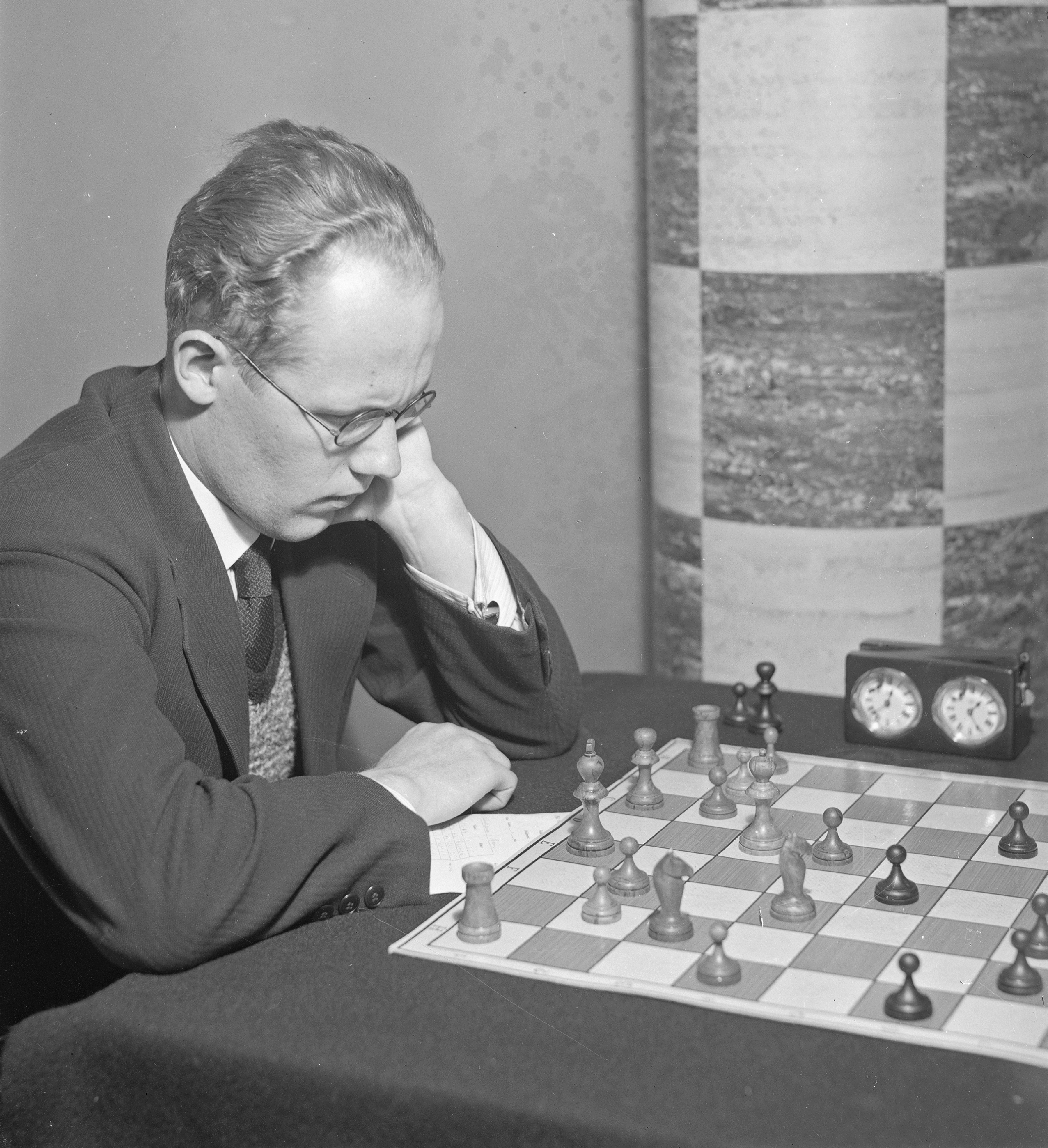 Finnish chess player Eero Böök in 1934.